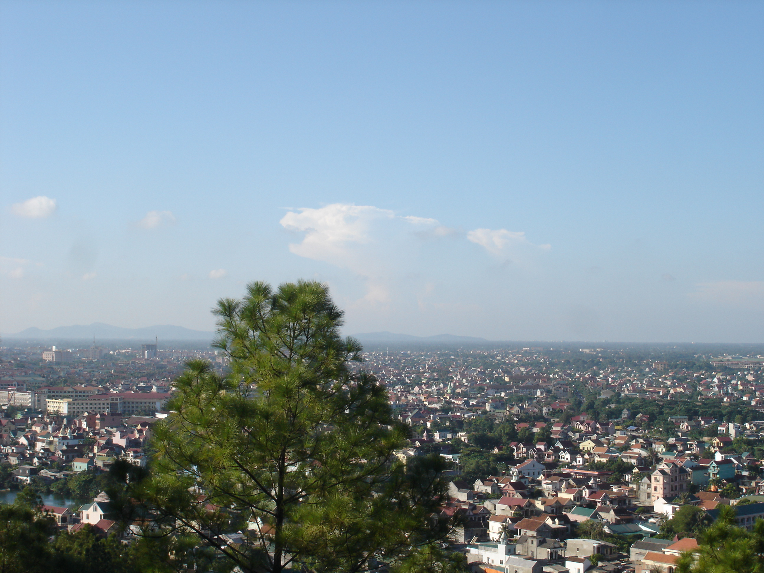 Vinh city- view from Quyet mountain